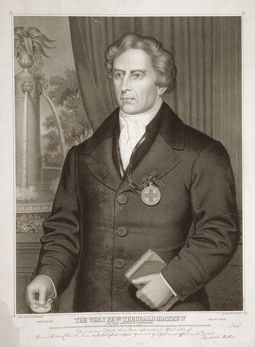 Irish temperance reformer Theobald Mathew (1790-1856). Caption: "The very revd. Theobald Mathew. The great apostle of temperance - extract of a letter from Father Mathew dated Cork Sept. 19 1848 to his friend Col. J.H. Sherburne at London in transmitting his portrait for his acceptance &c. "I send you my portrait, it is, I am informed, a faithful likeness. Farewell dear Colonel, I am with the highest respect your ever grateful and affectionate friend, Theobald Mathew."